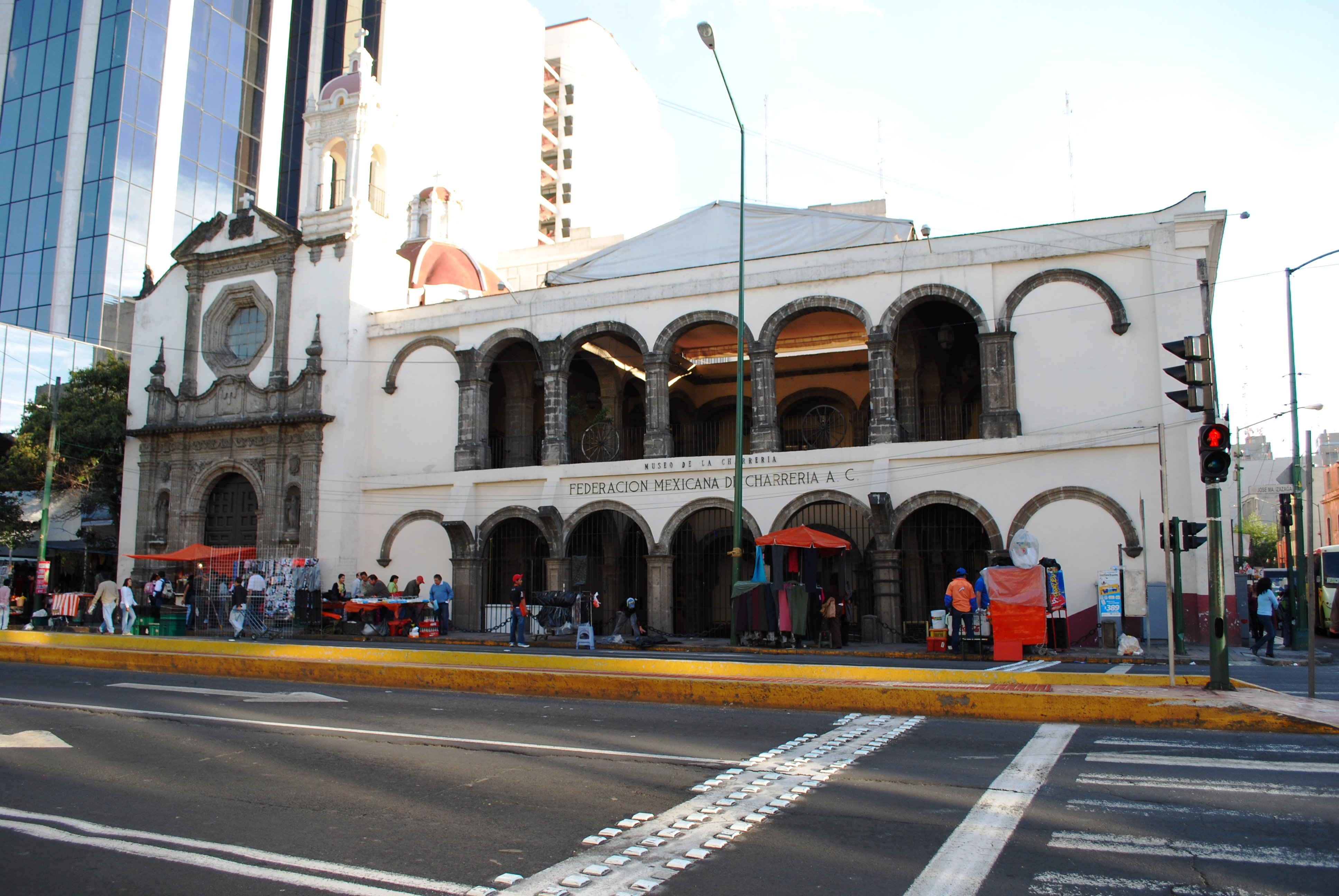 Museum of Charreria or Charreada in Mexico City